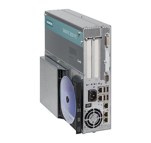 SIMATIC Box PC 627B with PROFINET-Interfaces